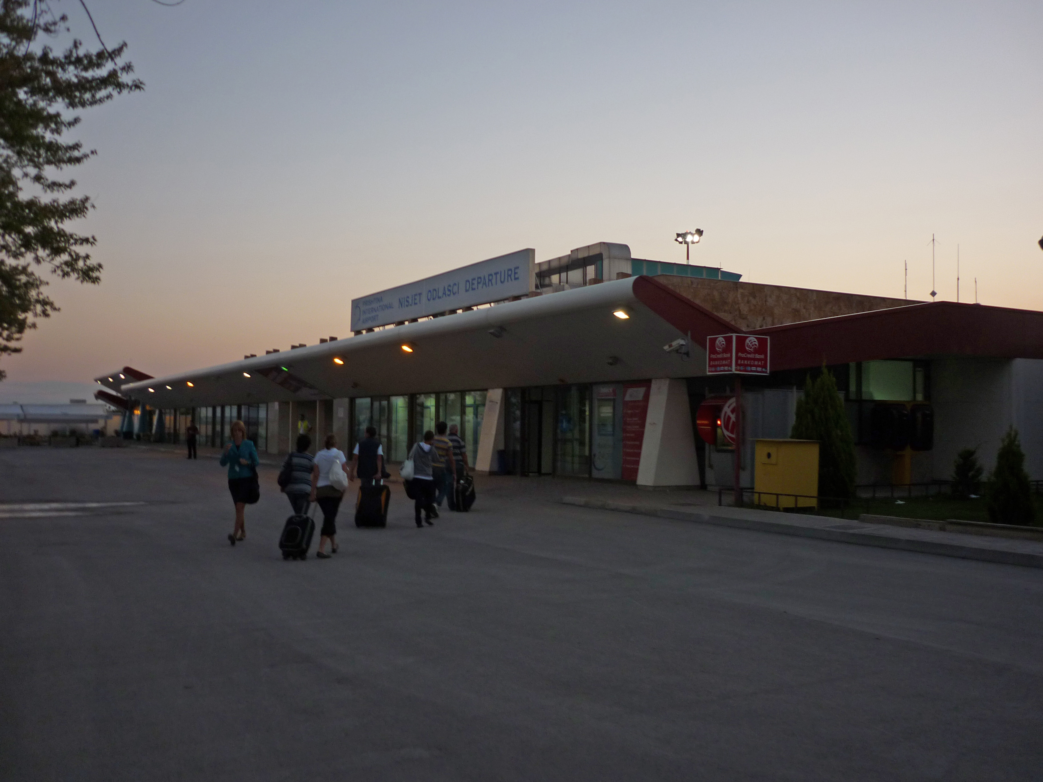 Front view of the departure terminal at Prishtina International Airport, Kosova. (early morning)